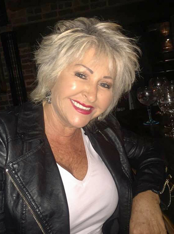 Margaret Oliver taken in 2018